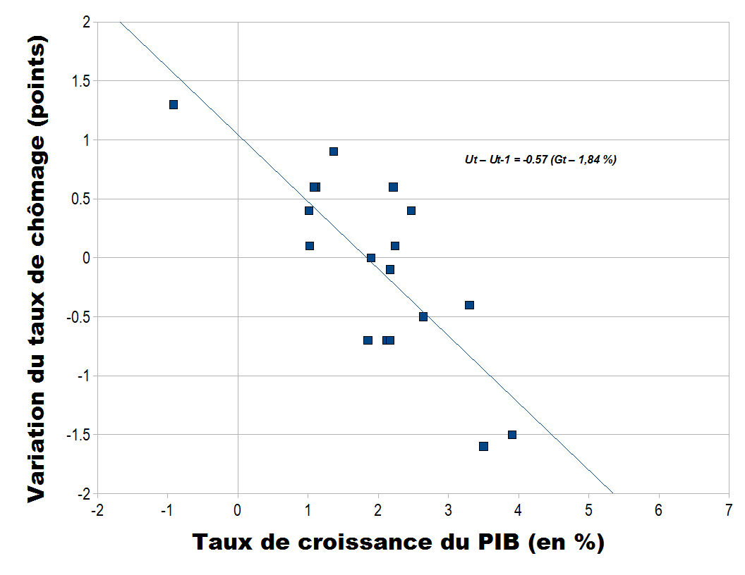 Relationship between changes in unemployment rate and growth rate (Okun's Law) in France 1990-2007. ILO and INSEE data. Each dot is one year.